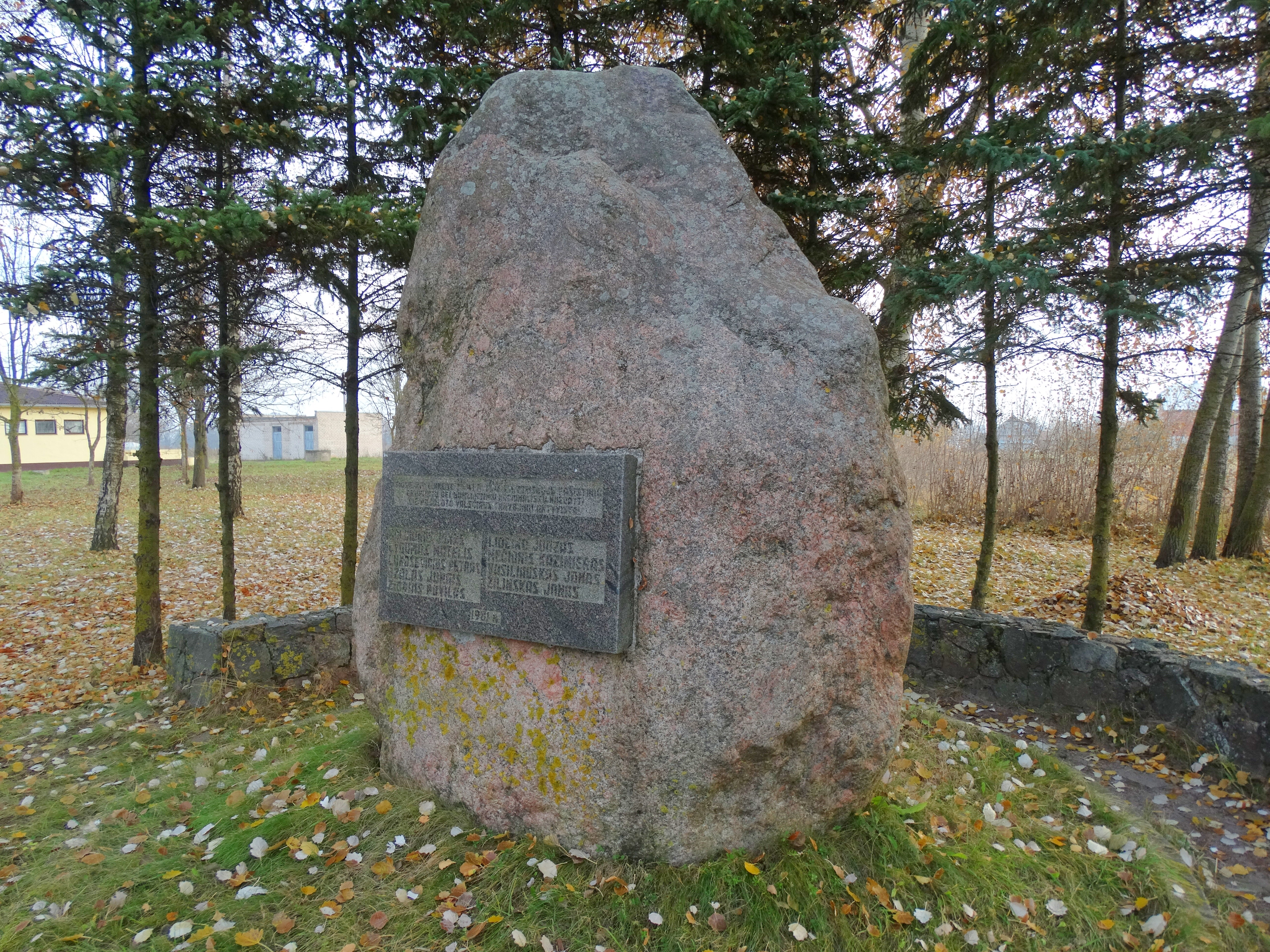 Skaistgiriai, Panevėžys district, Lithuania